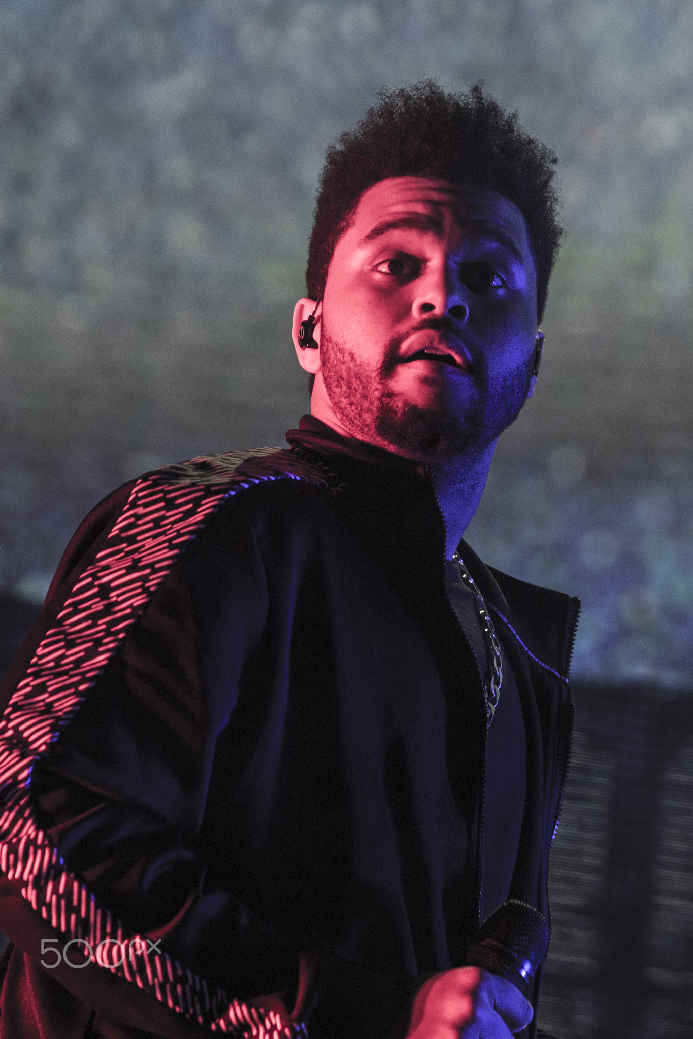 500px provided description: The Weeknd, Lollapalooza Chile Fest 2017 [#sunset ,#lens flare ,#evening ,#concert ,#music ,#live ,#performance ,#scarf ,#pop ,#backlit ,#sunglasses ,#fotografia ,#fashionable ,#concertphotography ,#music hall ,#vivo ,#musica ,#gigphotography ,#musicphotography ,#theweeknd ,#livemusicphotography ,#gigphoto ,#fotodeconciertos]